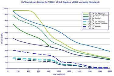 Vectoring on vdsl2 line, shows higher speed than normal line.